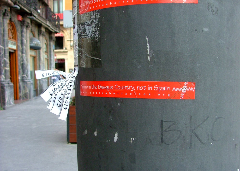 "You're in the Basque Country, not in Spain". A notice directed at tourists in a lamp post in Bilbao old town.